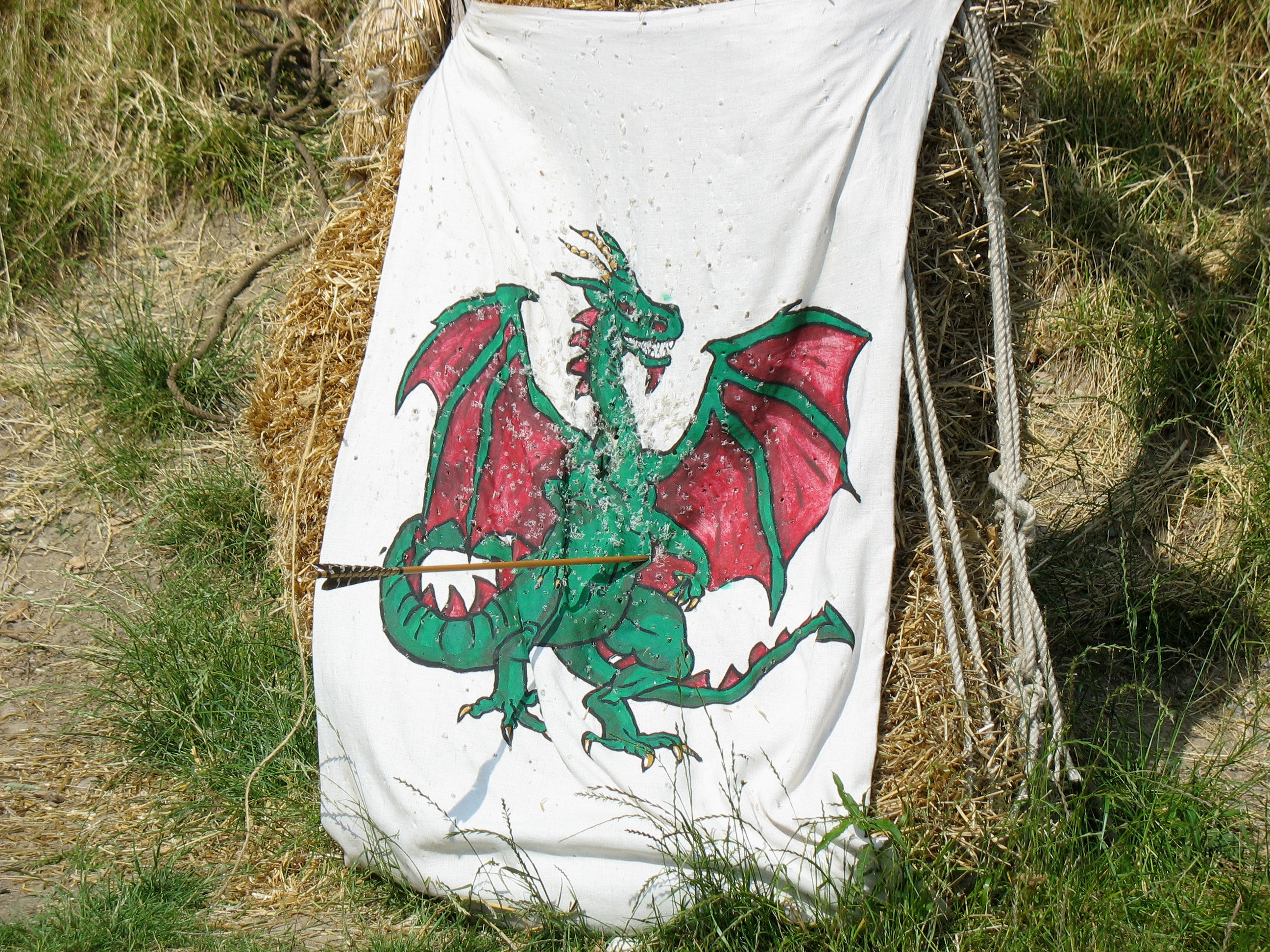 A bow and arrow target from the Middle Age museum "Middelaldercentret" located close to the town "Nykøbing Falster". The location is the island Lolland in east Denmark.